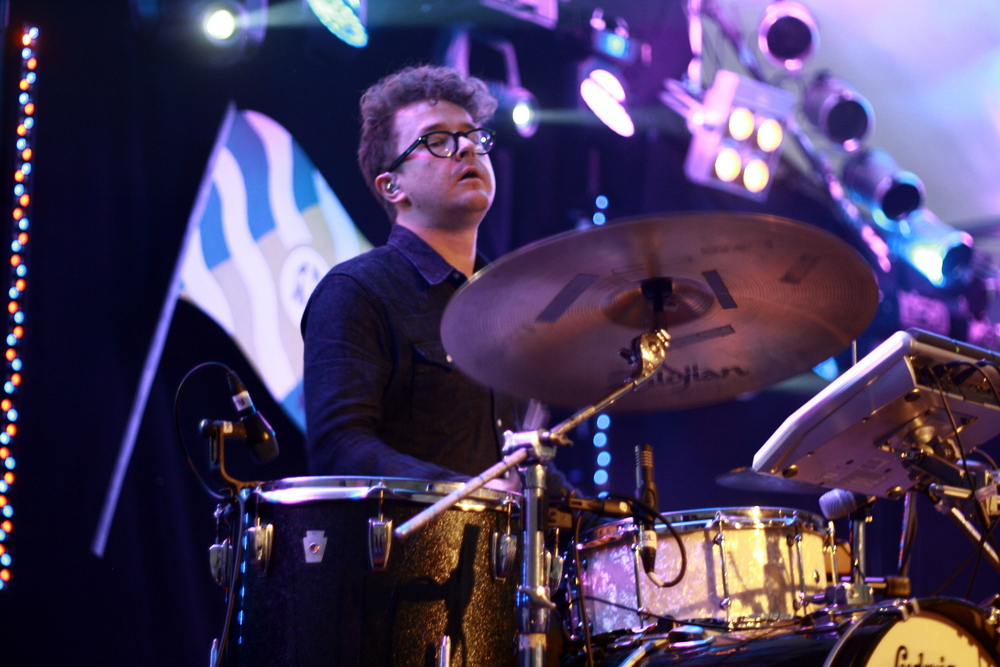 Andy Stack performing with Wye Oak in 2014